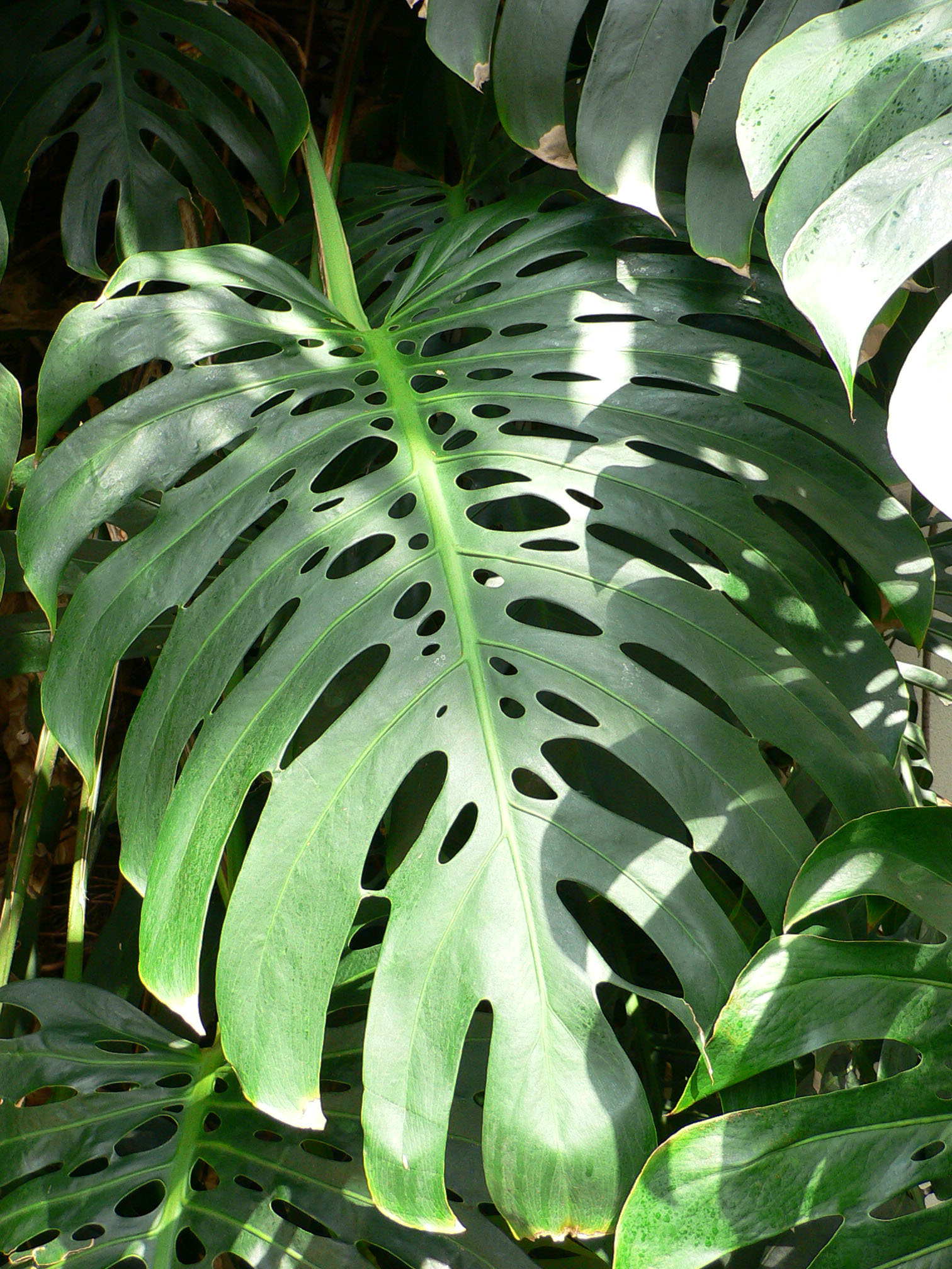 Monstera deliciosa at Longwood Gardens.